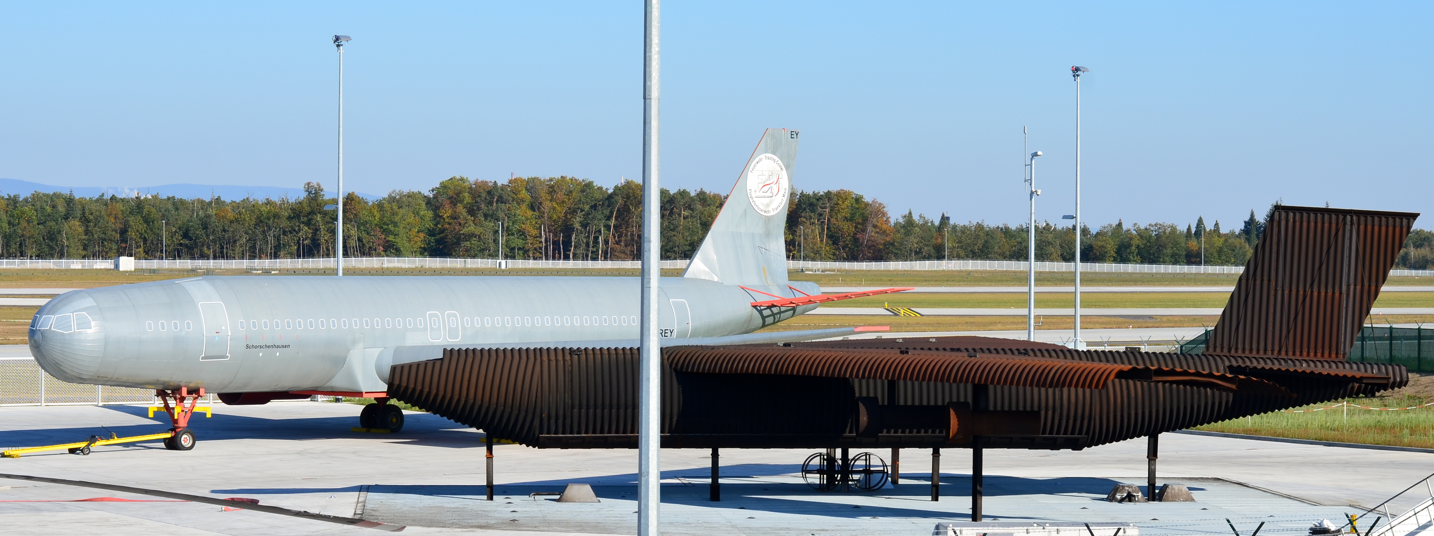 Airplane dummies for training of the fire brigade at the airport Frankfurt (Fraport) near fire station 4